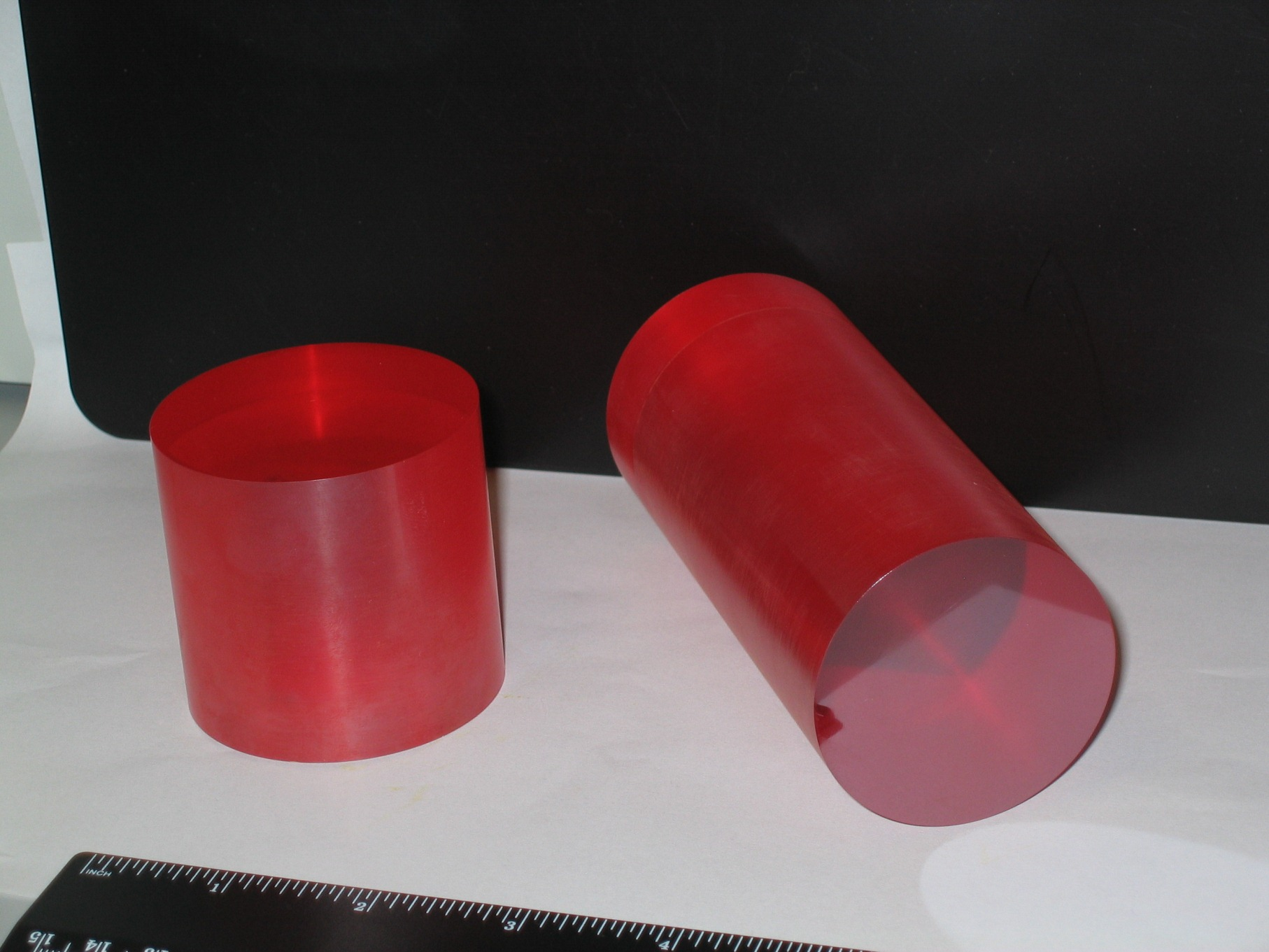 KRS5 Tallium Bromide Iodide ingots by Crystaltechno